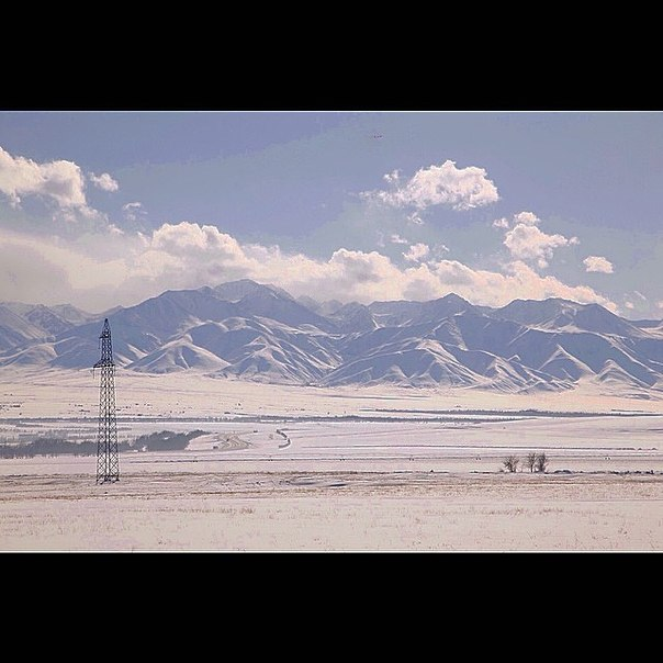 Zhualy District